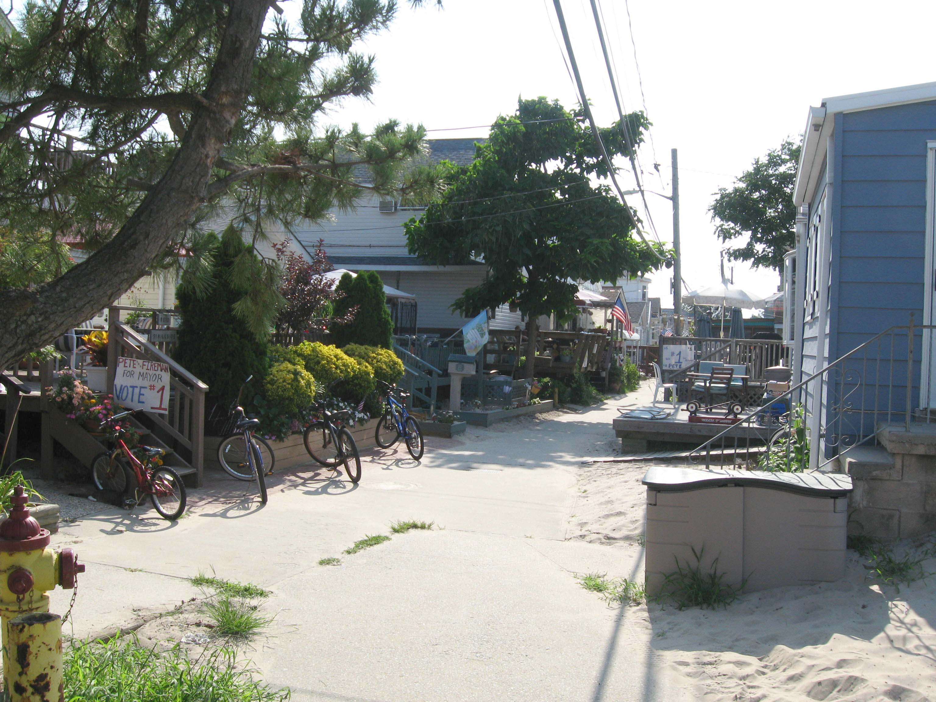 Looking west at a pedestrian street in Roxbury, Queens on a sunny afternoon